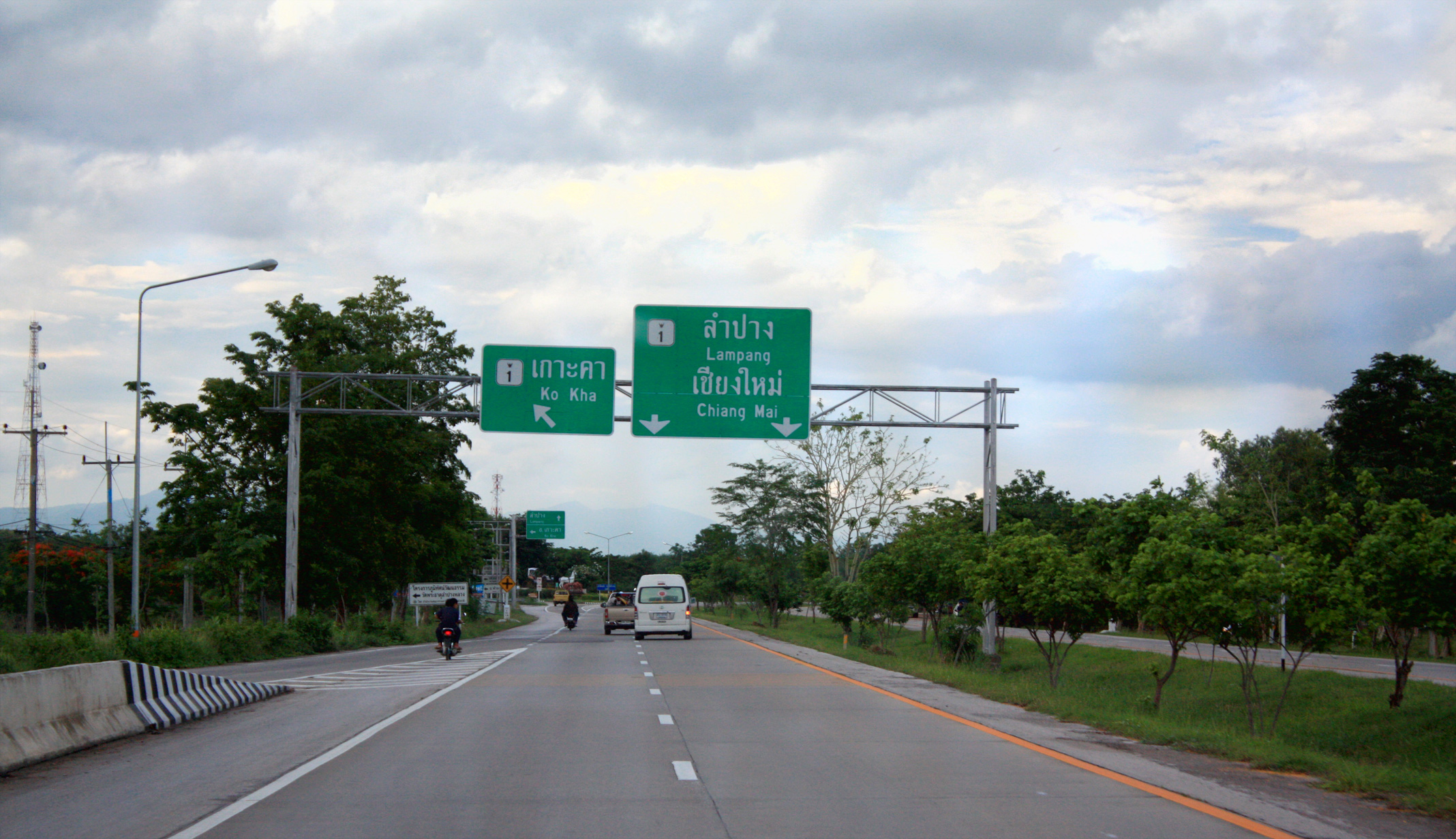 Highway 1 in Amphoe Ko Kha, Lampang Province, northern Thailand